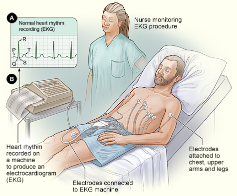 The picture shows the standard setup for an EKG. In figure A, a heart rhythm recording shows the electrical pattern of a normal heartbeat. In figure B, a patient lies in a bed with EKG electrodes attached to his chest, upper arms, and legs. A nurse oversees the painless procedure.